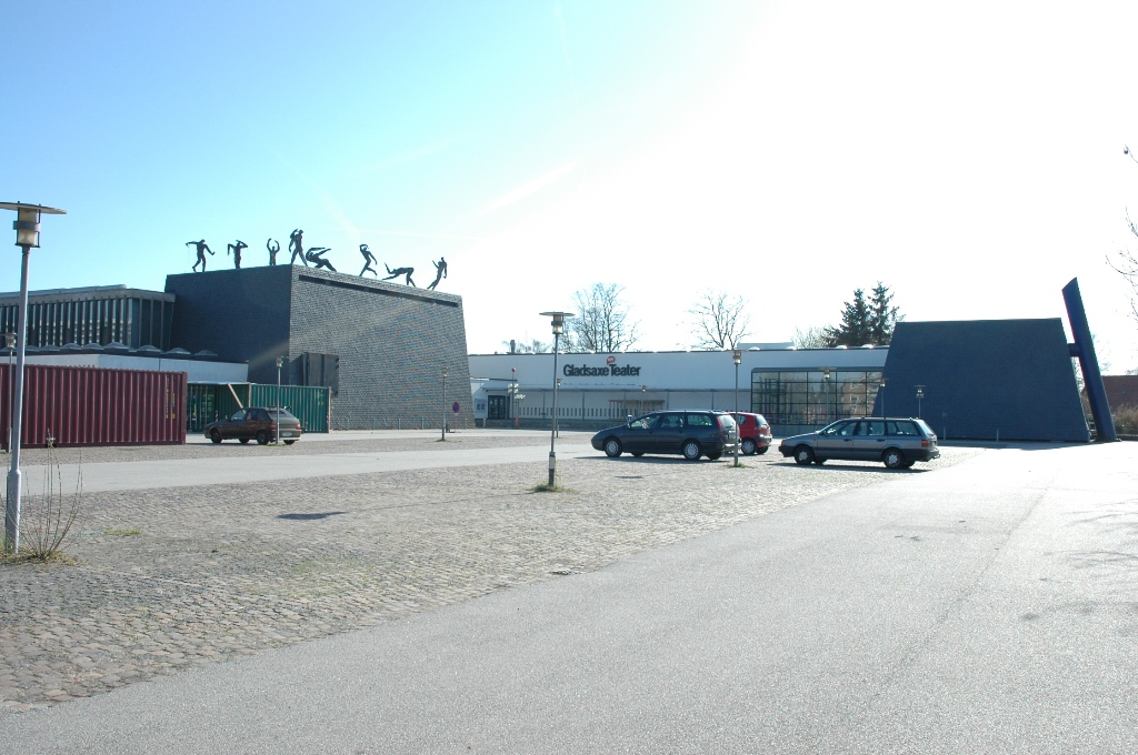 Gladsaxe Ny Teater